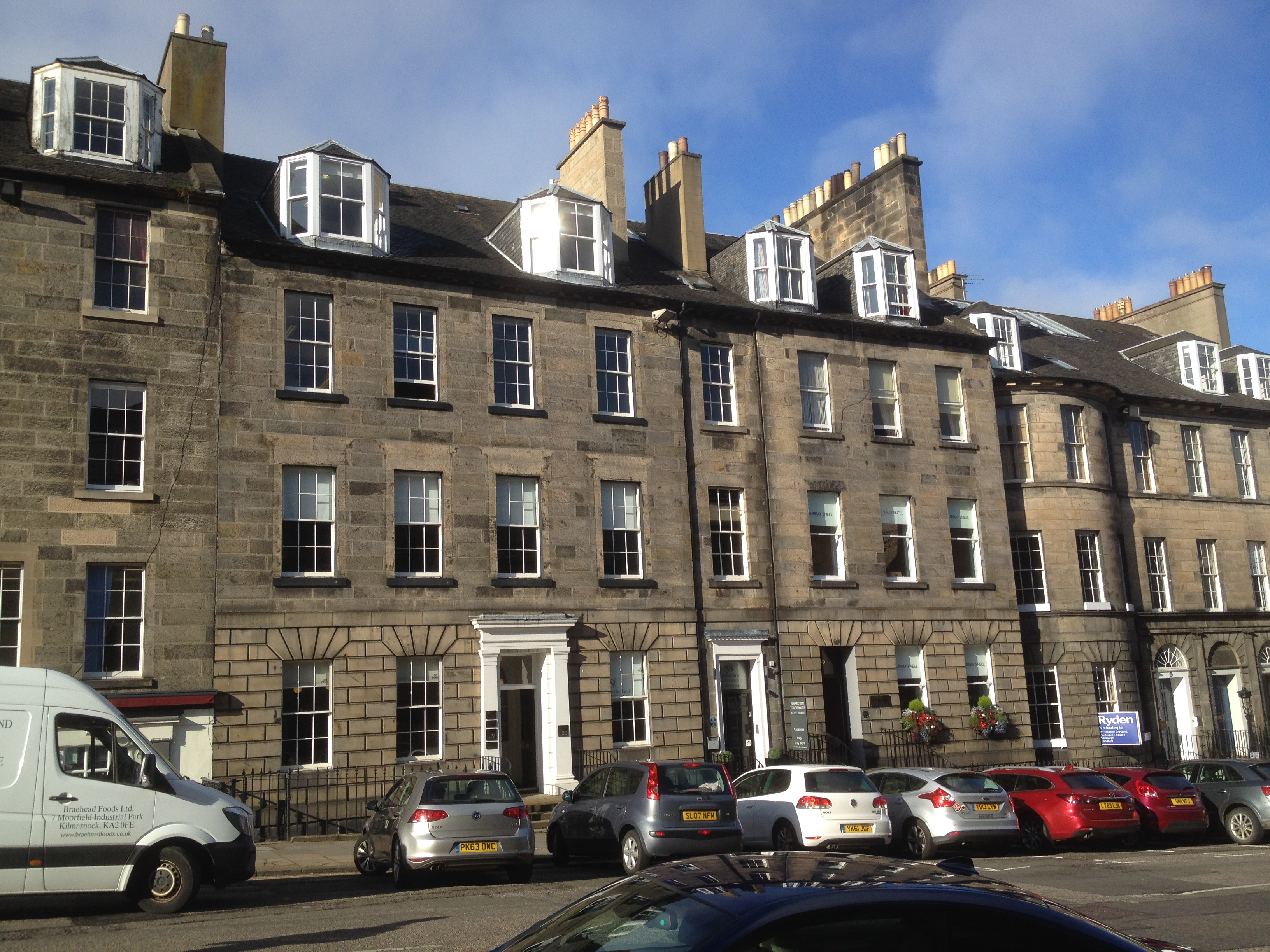 N. Castle Street 36-40, Edinburgh